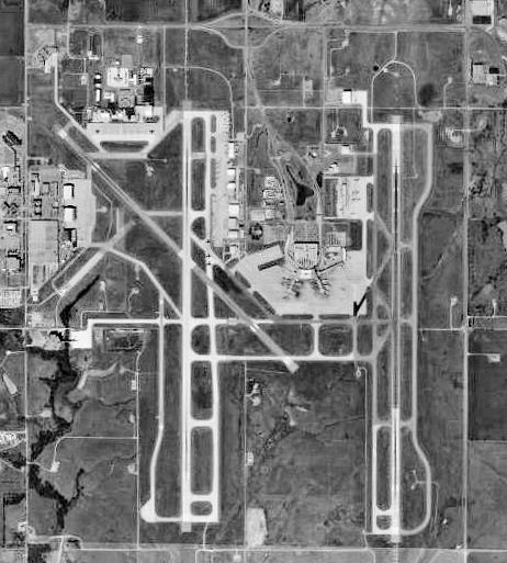 Will Rogers Airport, Oklaholma City, OK, 19 Feb 1995 Source: United States Geological Survey digital orthophotoquad via TerraService WebMap Server